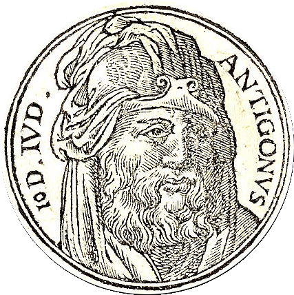 Antigonus II Mattathias